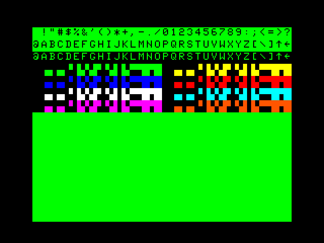 screenshot of a CoCo 2 emulator (MESS) showing all available alphanumeric characters and semigraphics characters.